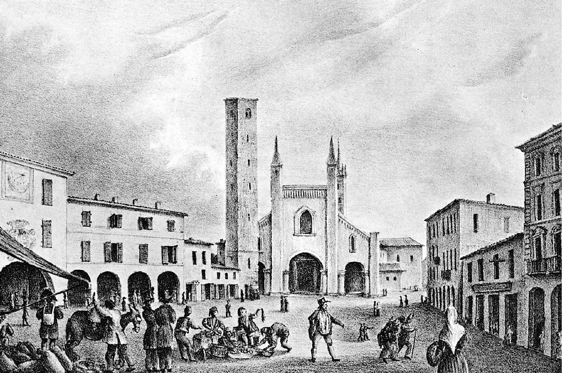 Veduta del Duomo di San Lorenzo, Alba, 1839